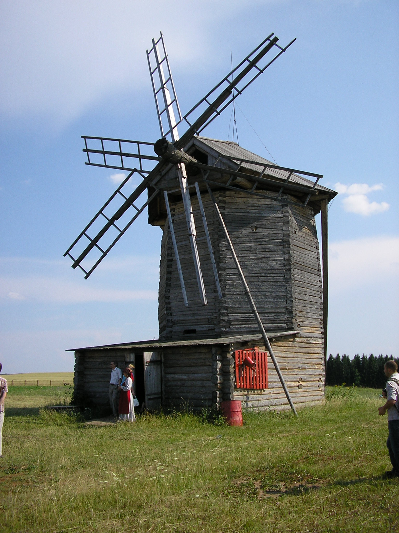 This is at the Udmurt open-air ethnographic museum [Этнографический музей под открытым небом «Лудорвай»]. The wood isn't originally, but the design is from the early 20th century. The original was in a differnet location.